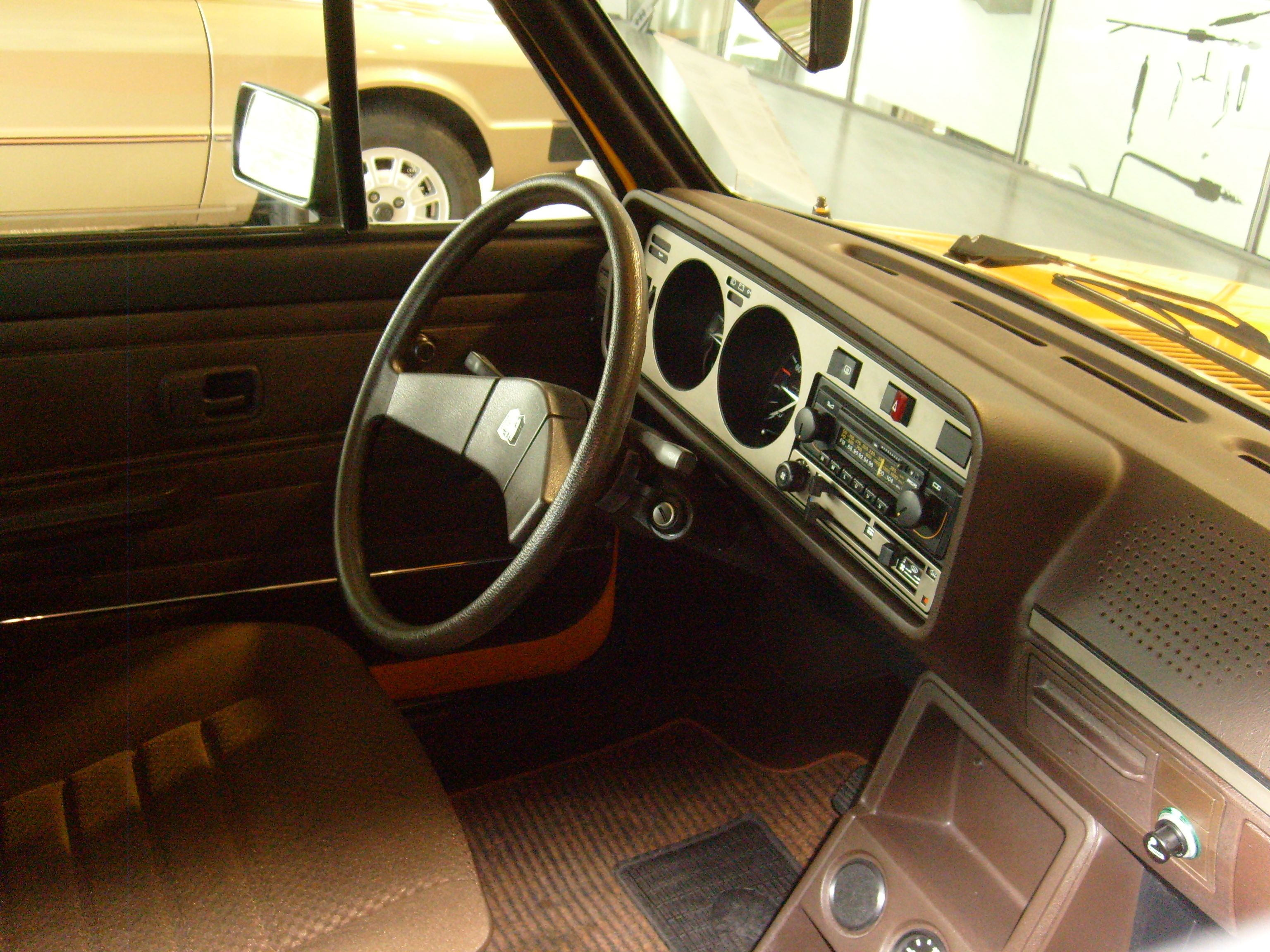 Volkswagen Golf Mk1 interior @ Automuseum Volkswagen and Autostadt